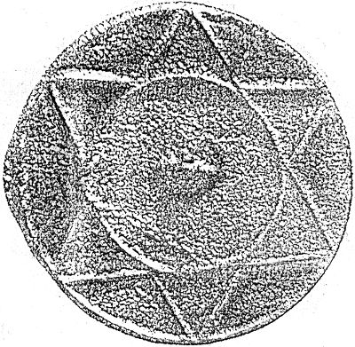 A circular metal disc with a six-pointed star symbol from the context of the Khazar Khanate, interpreted by Professor Bozena Werbart of Umea University as Jewish but seen by others as shamanistic or pagan. The circular nature of the disc may represent the sun, and the 6 points may represent rays of the sun. Scholars lean towards assigning the disc to Tengri shamanism due to the fact that there are also known examples of Khazarian sun discs with 5 or 7 points, rather than consistently 6. Some of the Jewish-Turkic graves at Chelarevo in what used to be Hungary contain engravings of the "Star of David" and are believed to belong to Khazar Kabar migrants.